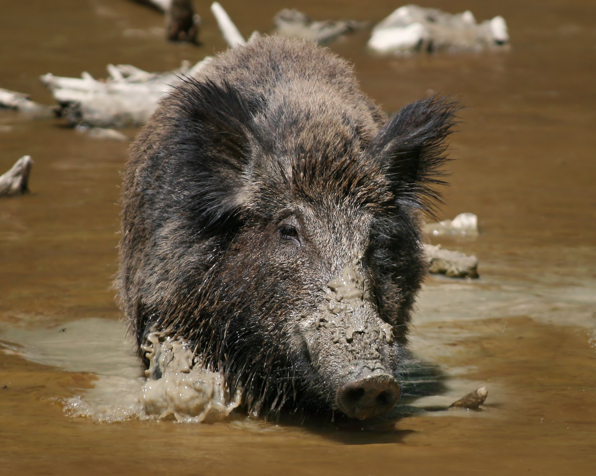 Crop of